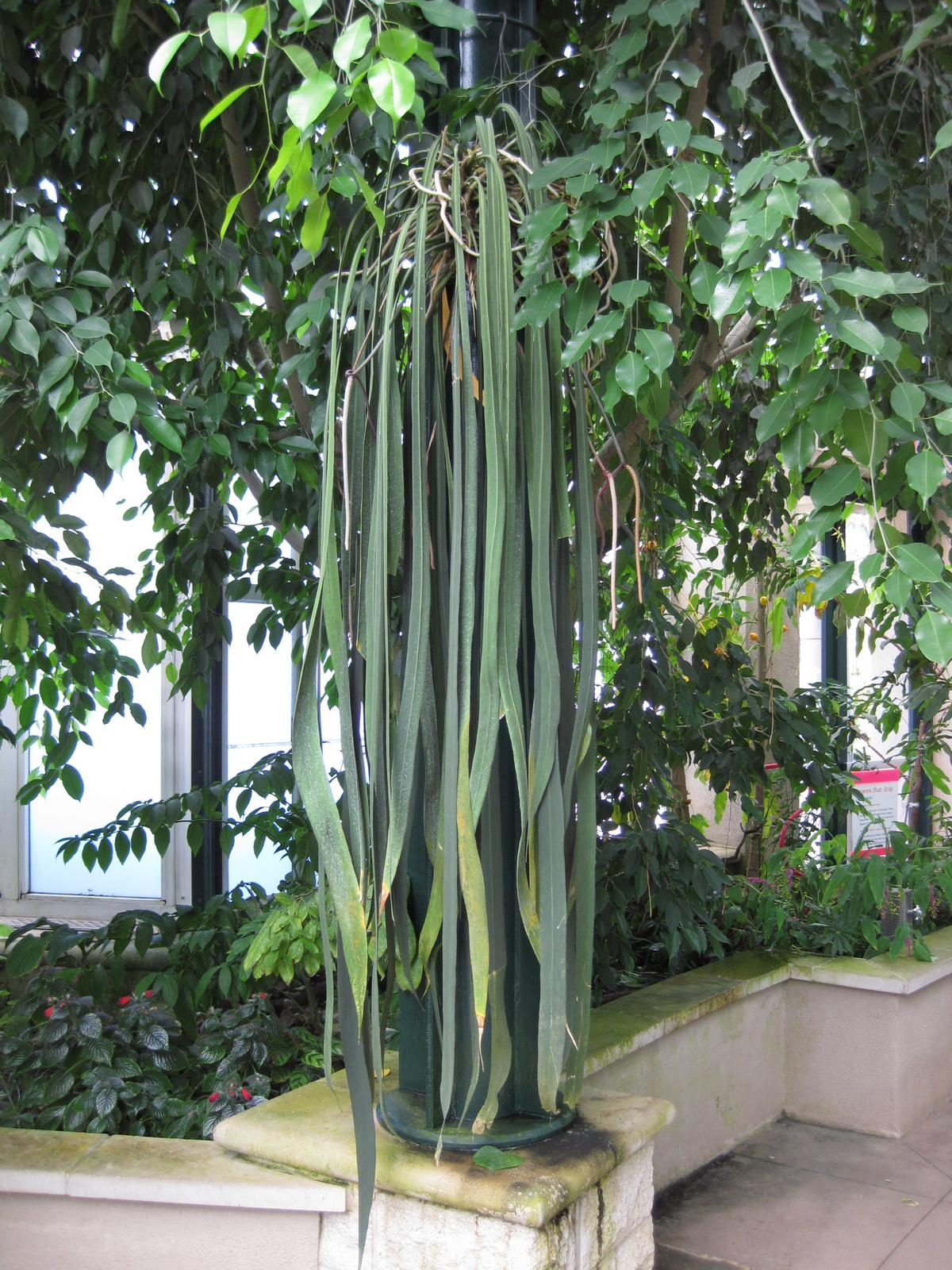 Photographed at Huntington Gardens (Los Angeles) in October